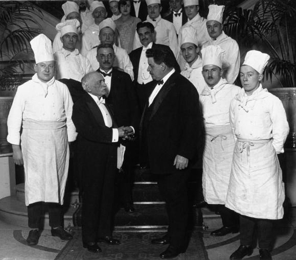 A banquet in honour of the best chef in France, Auguste Escoffier (in the foreground on the left), shown here with Prime Minister Édouard Herriot (right). [The original caption gives the location as Palais d'Orsay, but the building was burnt down in 1871.]